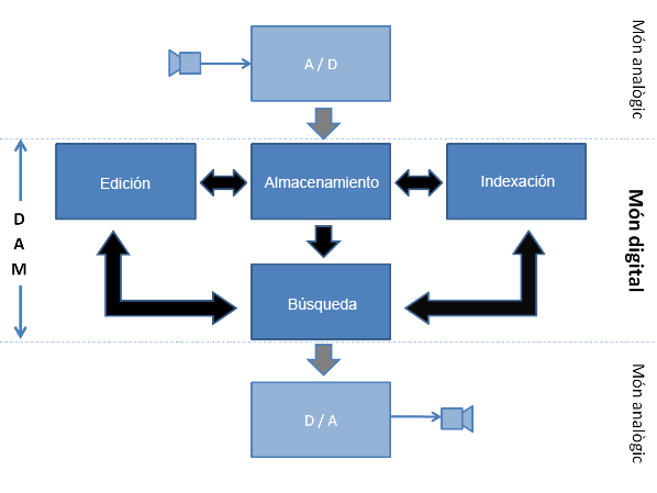 bhvvvg